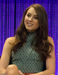 The core cast of "Pretty Little Liars" at The Paley Center For Media's PaleyFest 2014 Honoring "Pretty Little Liars". From left: Troian Bellisario, Ashley Benson, Lucy Hale, Shay Mitchell, and Sasha Pieterse.